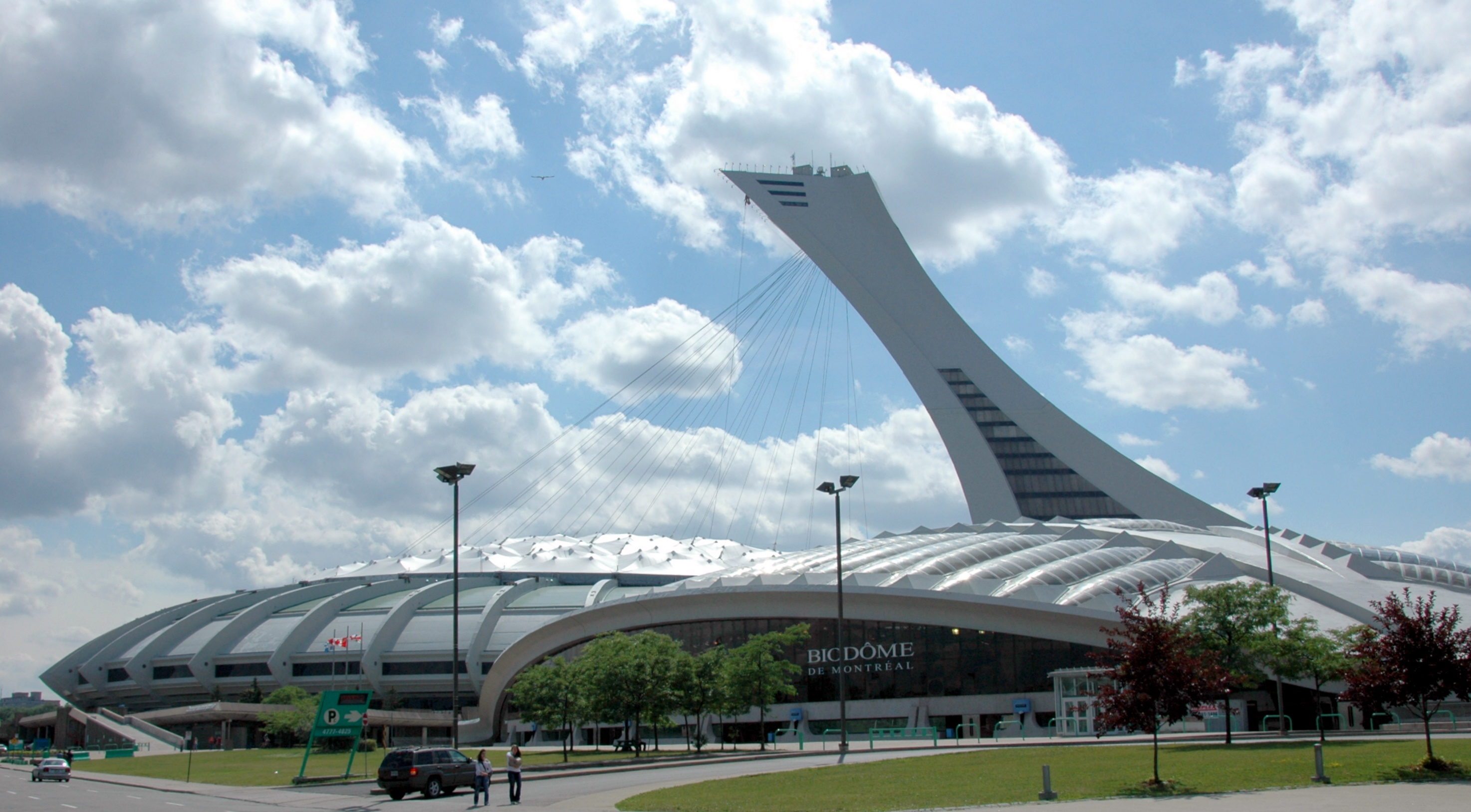 Biodôme / Olympic Stadium in MontrealBiodôme de Montreal